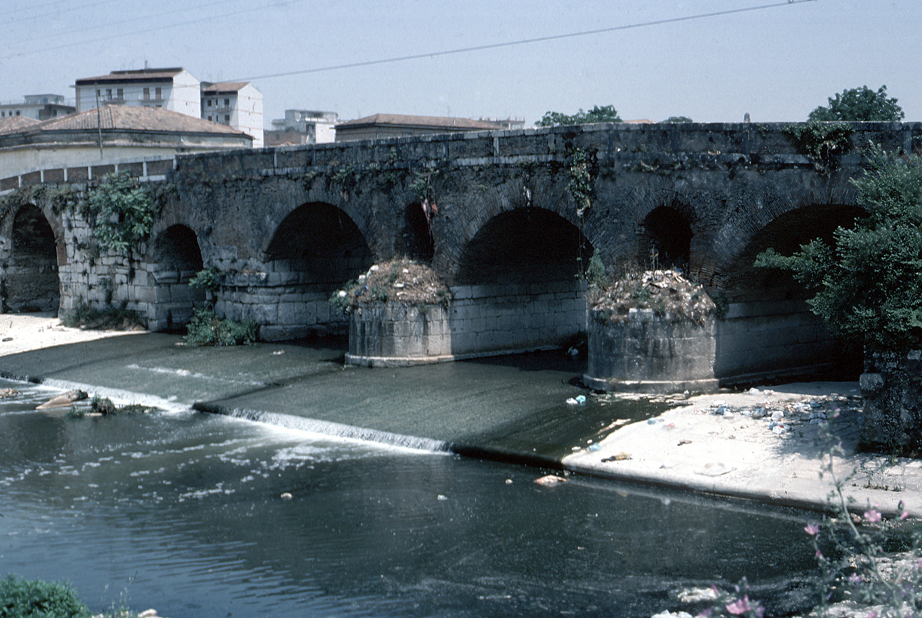 AWIB-ISAW: Beneventum, Ponte Leproso (I) View of the ancient Roman Ponte Leproso at Benevento, from downstream. This bridge carried the famous Via Appia over the river Sabato. by George W. Houston (1969) copyright: 1969 George W. Houston (used with permission) photographed place: Beneventum (Benevento) Published by the Institute for the Study of the Ancient World as part of the Ancient World Image Bank (AWIB). Further information